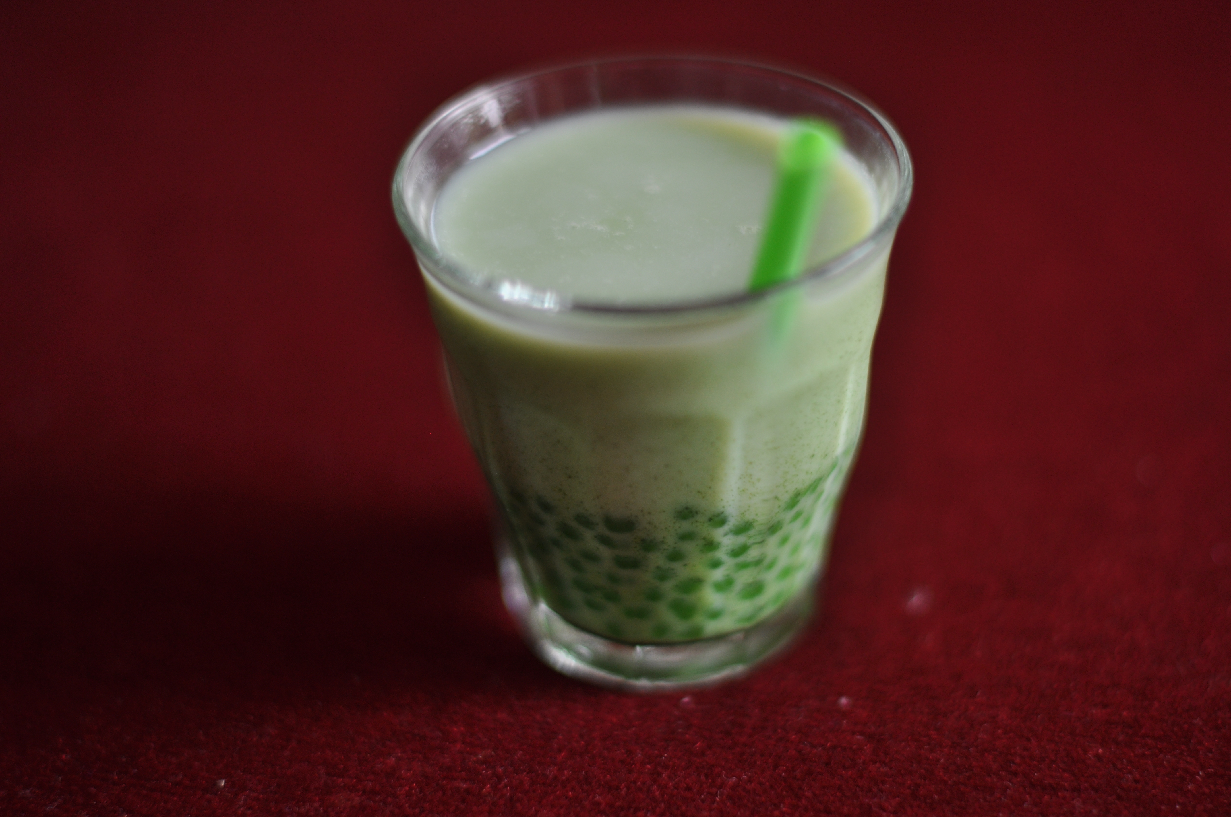 Matcha bubble tea